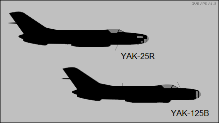 Side-view silhouettes of the Yakovlev Yak-25R and Yak-125